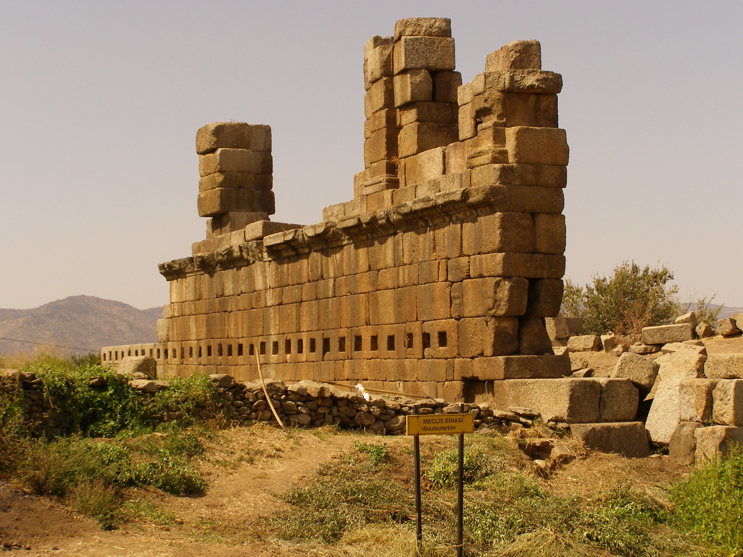 The Greek bouleuterion in the ruins of the city of Alabanda, in Turkey.